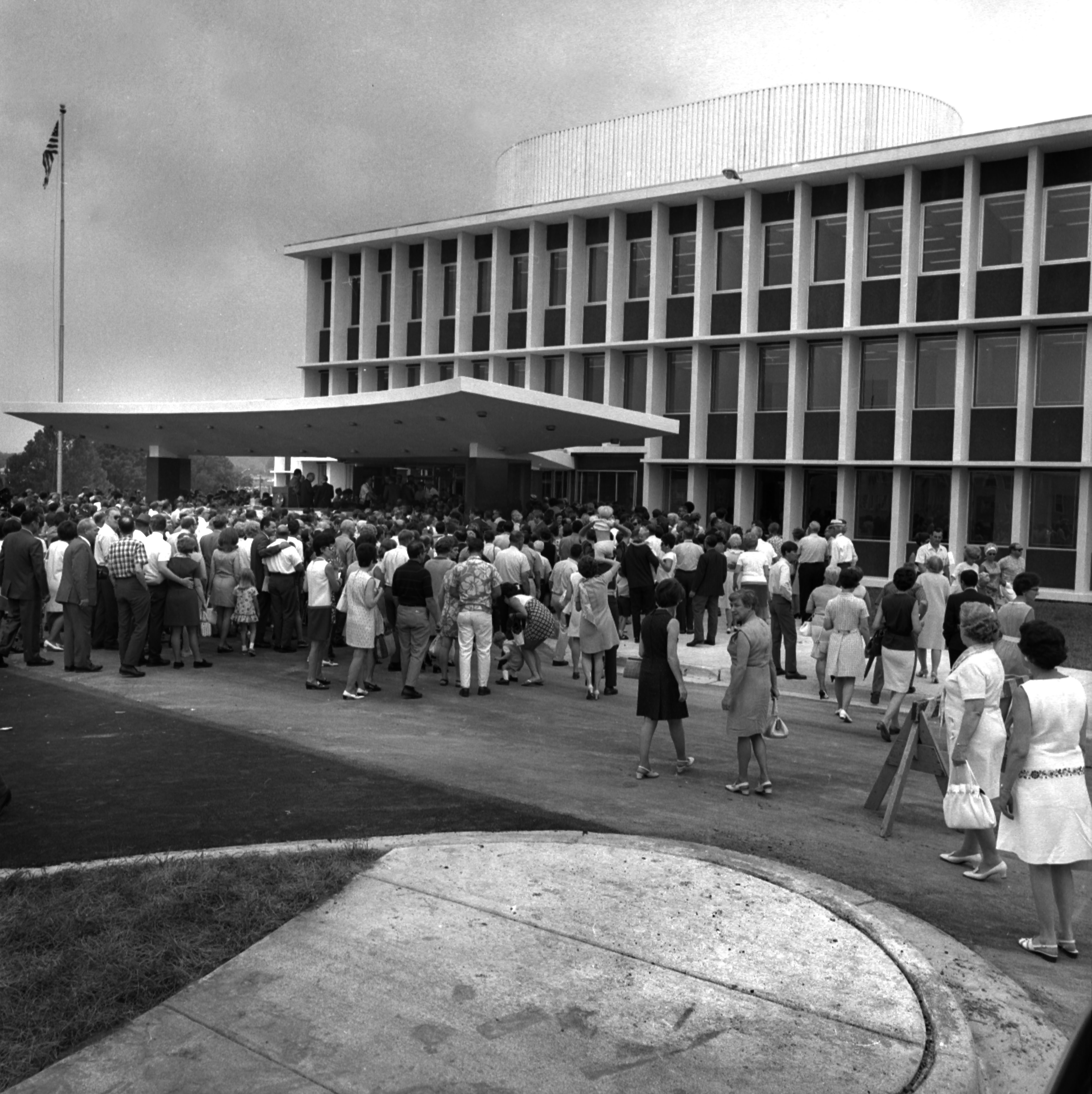 70-165n DOE Photo by Frank Hoffman Formal Dedication New AEC (Atomic Energy Commision) - FOB (Federal Office Building) Oak Ridge Tennessee 6-27-1970